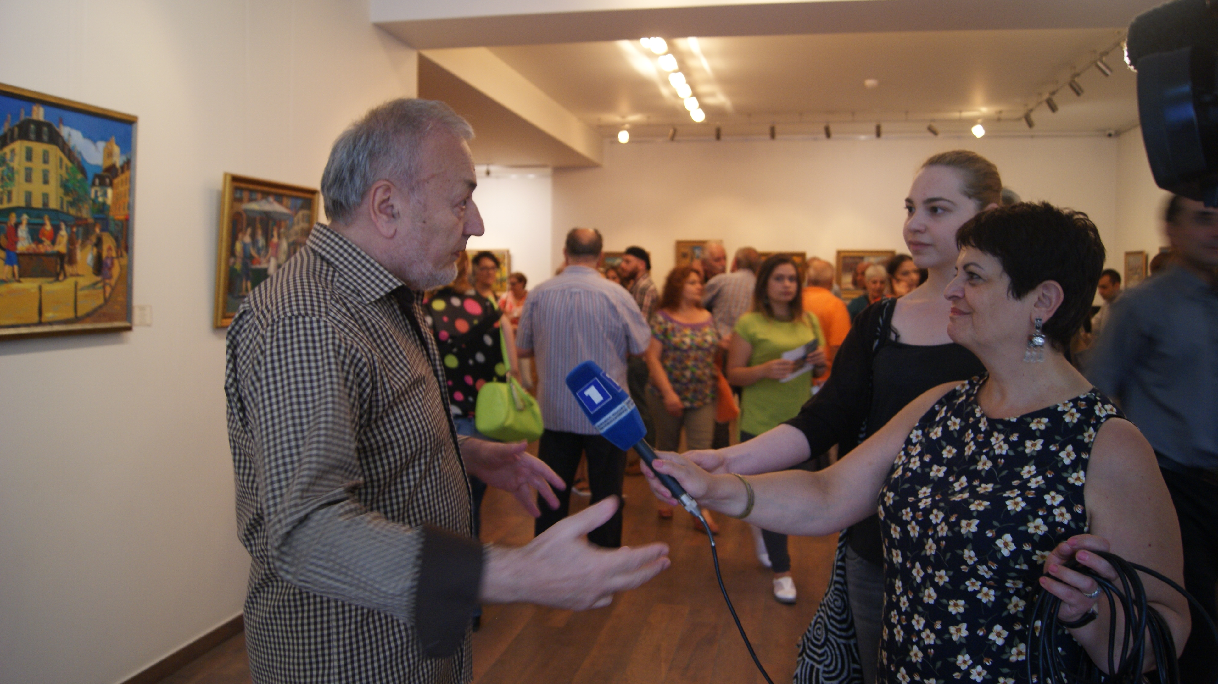 Areg Elibekyan's exhibition in Yerevan at Arame Gallery